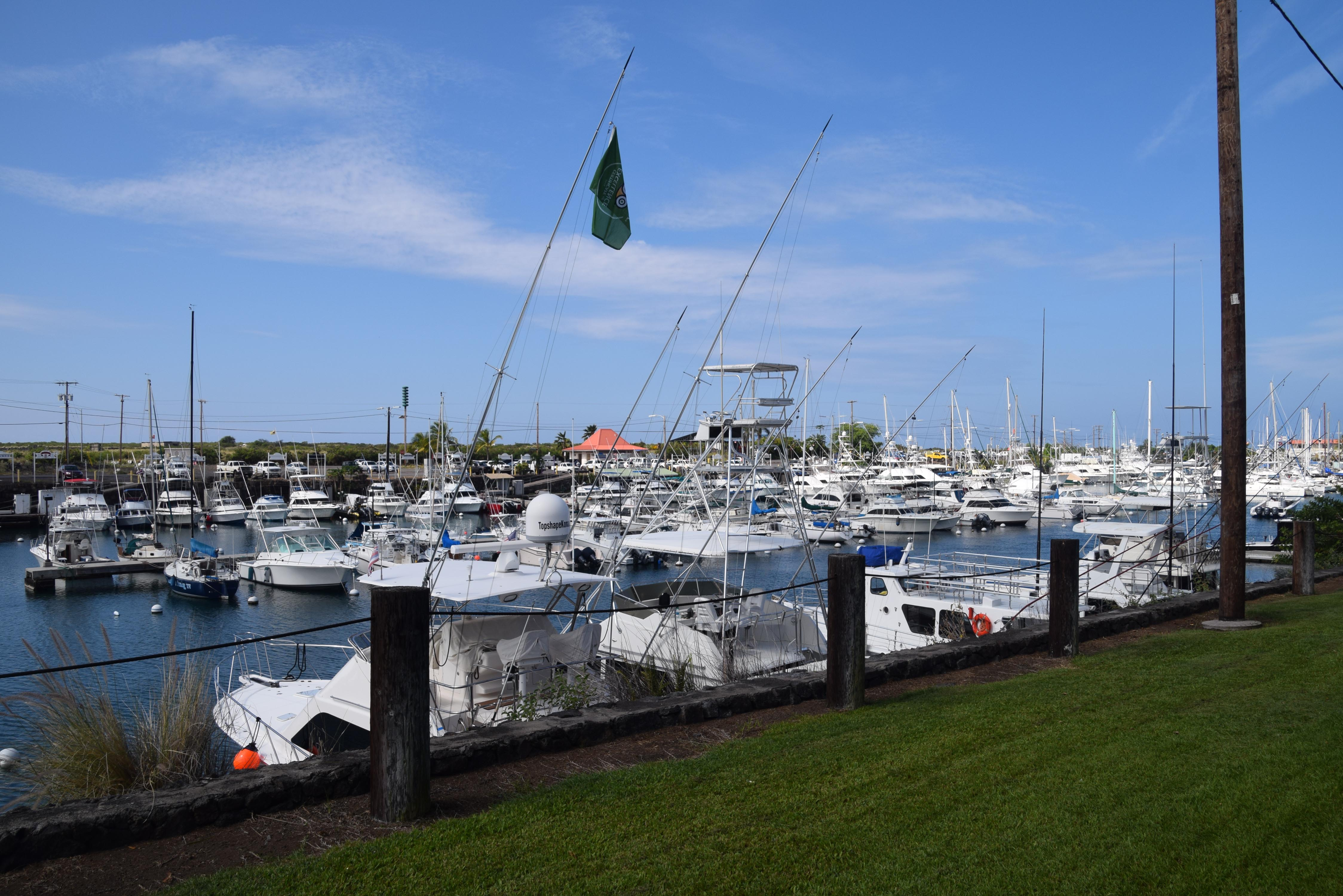 Honokohau Harbor, the Big Island of Hawaii, Hawaii, USA